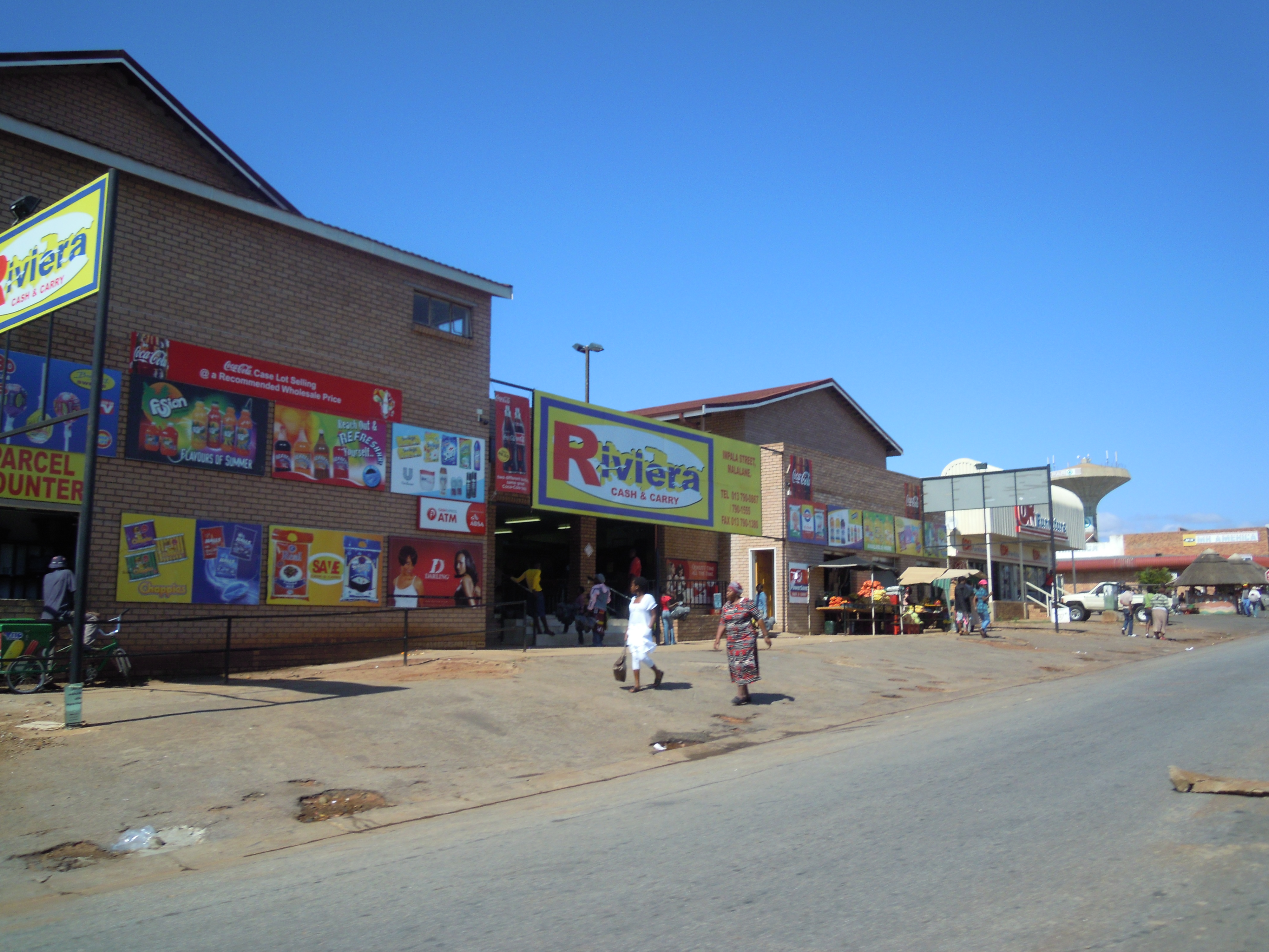 Malelane